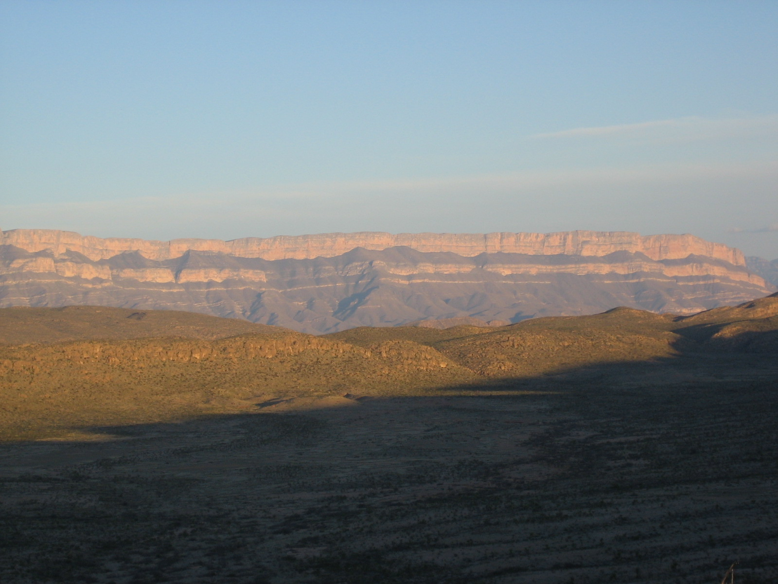 A view of the Sierra Madre Oriental from the SouthEast of Big Bend National Park, Texas. Spring break, 2005. Taken by Skye, Justin, & Olivia.